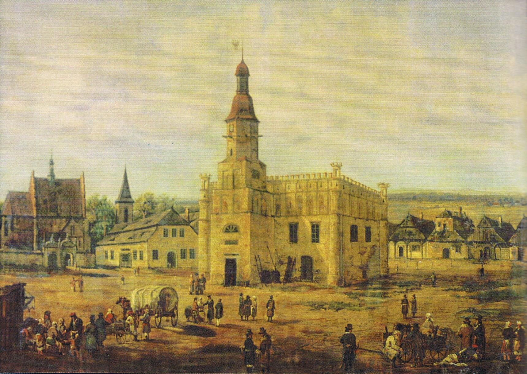 'The wiew of Marketplace in Szydłowiec'